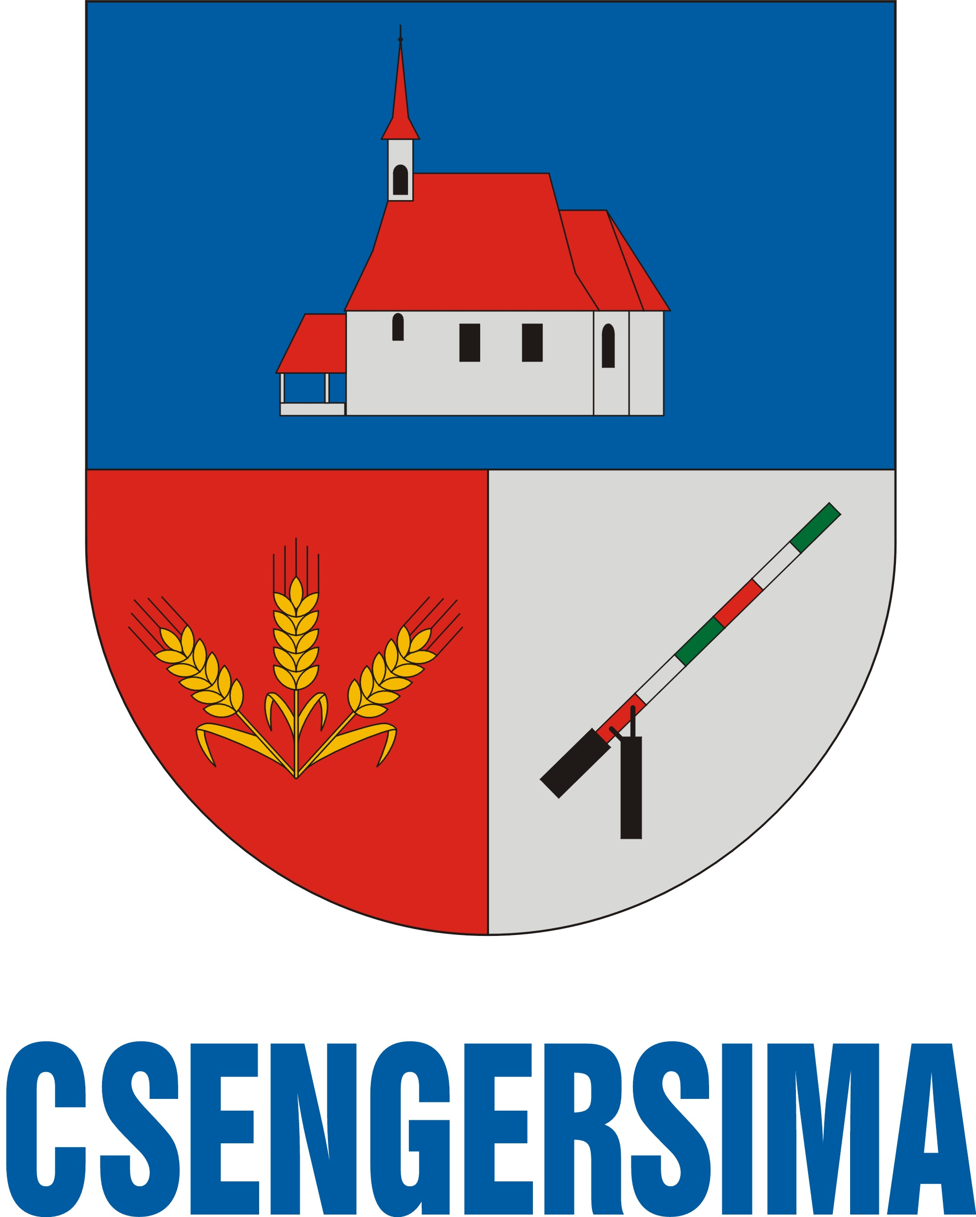 Coat of arms of Csengersima, Hungary